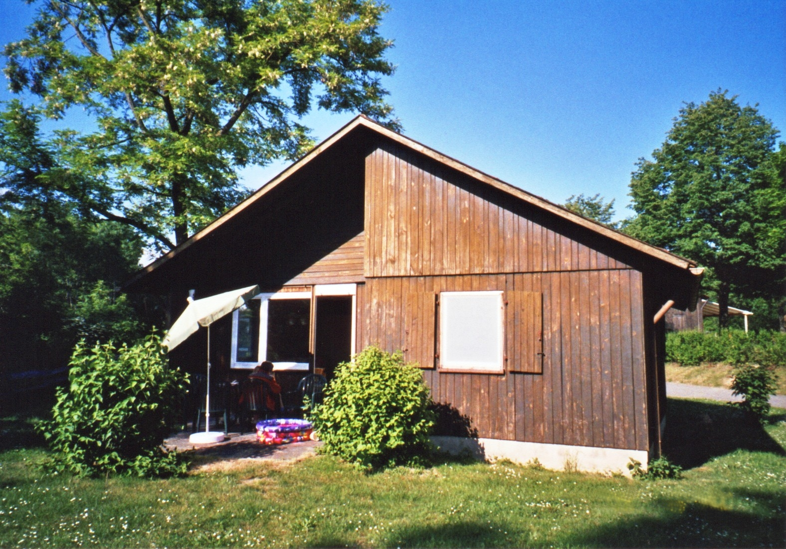 Langenburg: "Roseneck" holiday village (1962-2007) (typical cottage)